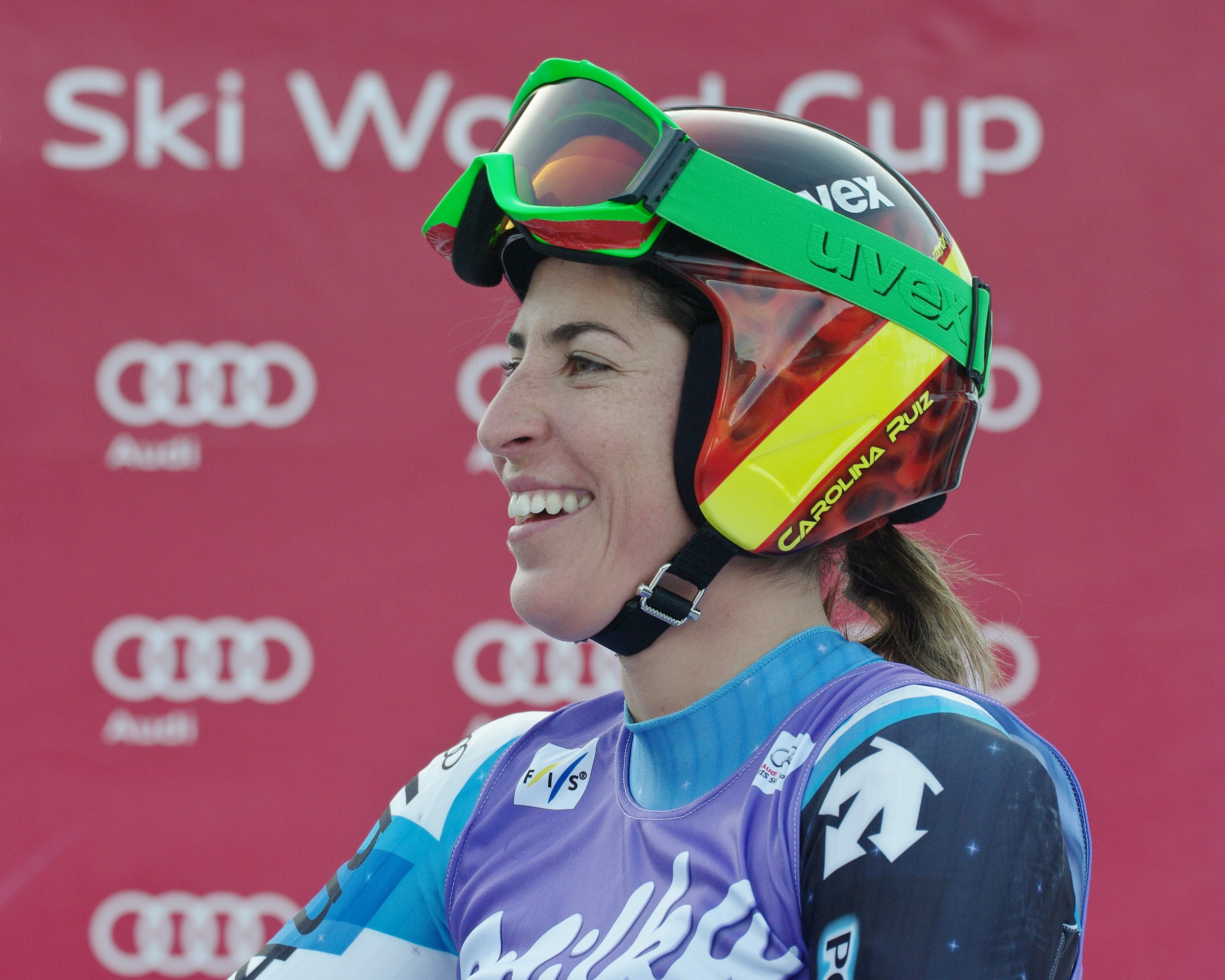 Spanish alpine skier Carolina Ruiz Castillo after the second Downhill training in Altenmarkt-Zauchensee (Austria) on 7 January 2011.